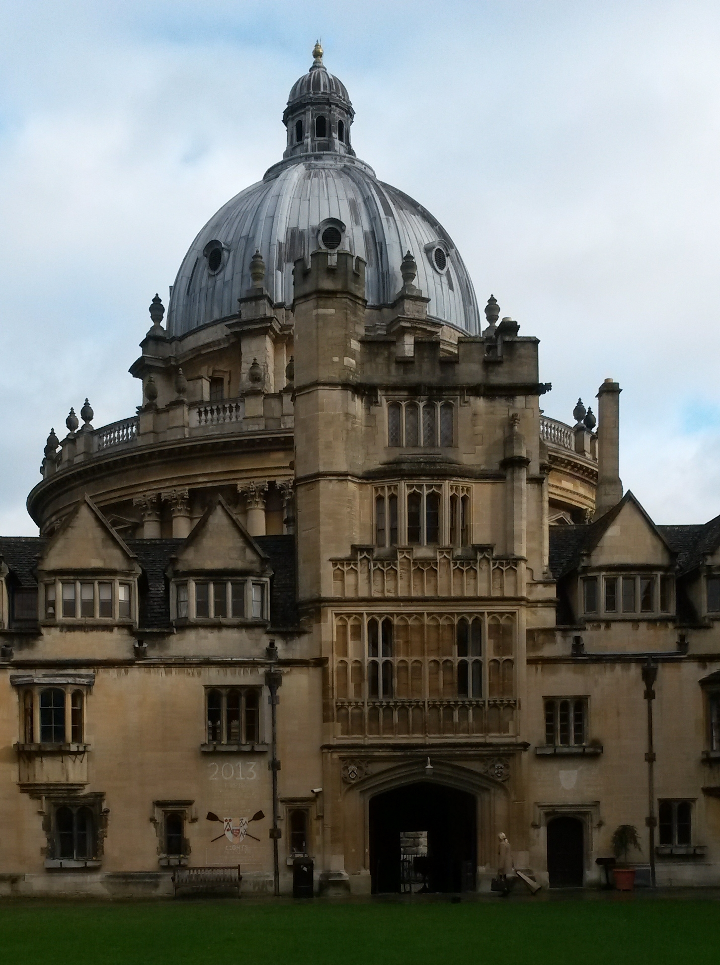 The tower of Brasenose College, Oxford which houses the Lodge and main gate, taken from inside the college. The Radcliffe Camera can be seen in the background.